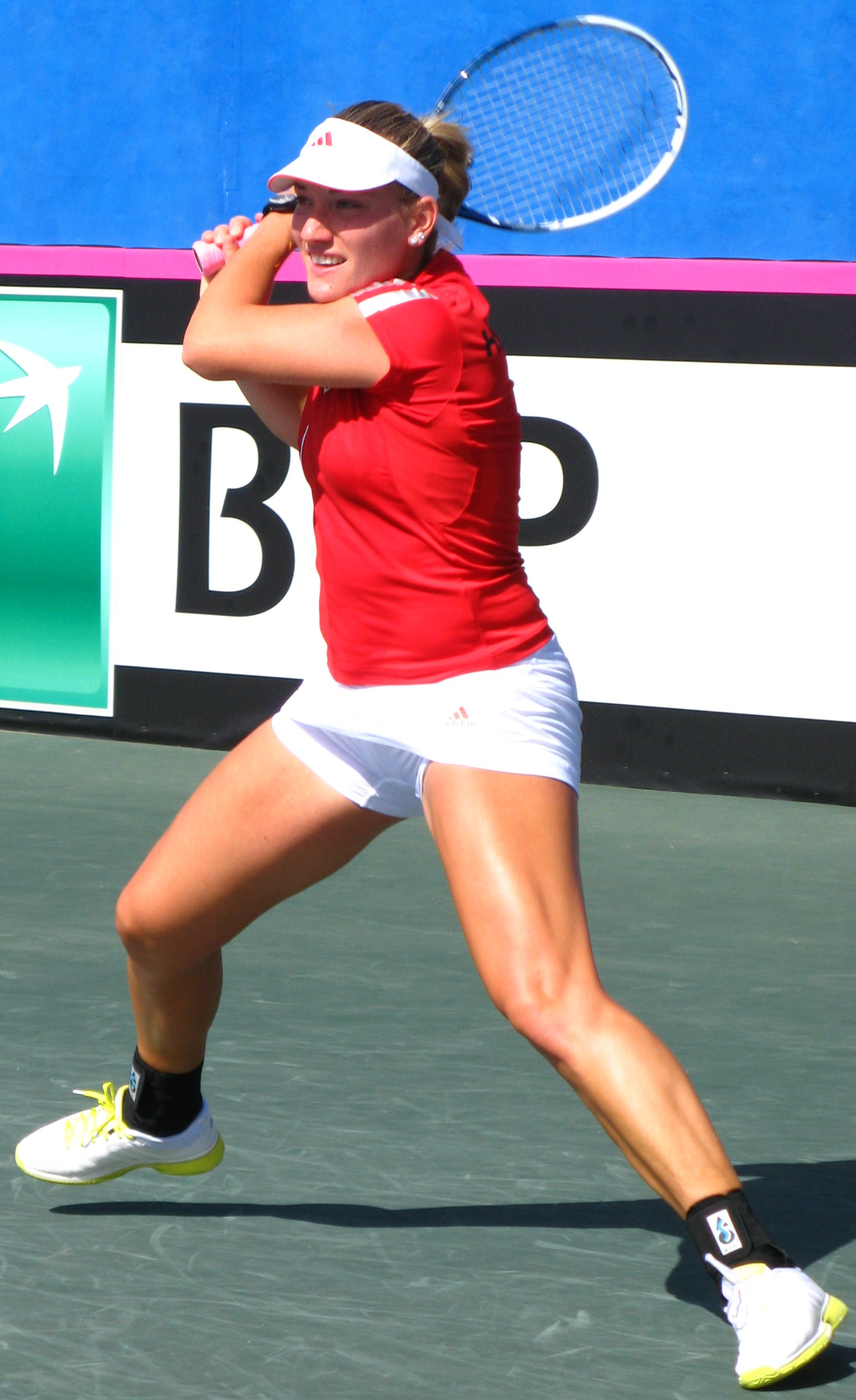 The tennis player Tímea Babos of Hungaria during her match against Michelle Larcher de Brito of Portugal in the 2nd day of Fed Cup Group I 2013 Europe/ Africa in Eilat, Israel.